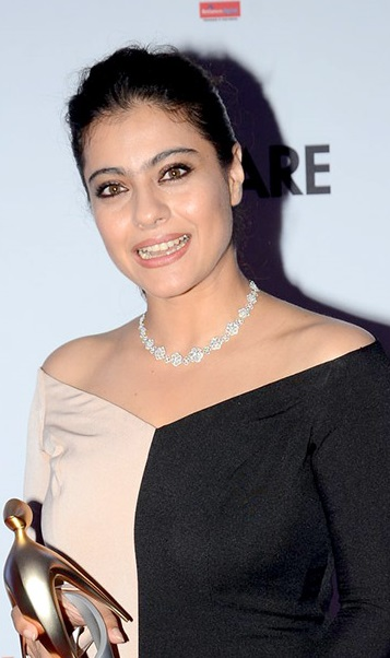 Kajol at Filmfare Glamour & Style Awards 2016